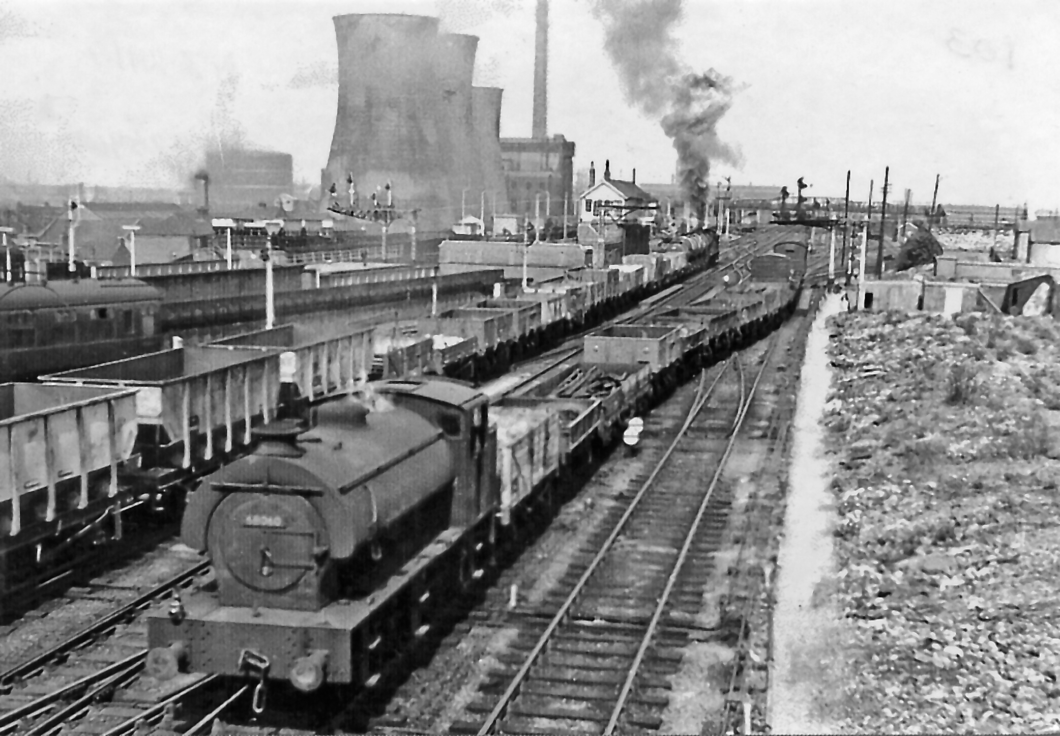 Scene northward from footbridge at north end of Darlington Bank Top station This view is on the ECML at the major junction of Darlington, ex-NER. The Station is to the left, with the Through lines passing on its east side, also the lines serving Bank Top Goods. Ahead on the left is Darlington North Box, opposite which is the Locomotive Yard and beyond is the - relatively new - Power Station. No. 68060 (built 9/45 as WD No. 71467, LNER No. 8060 of 6/46) heading the approaching goods is one of the 382 Ministry of Supply 0-6-0 saddle tanks ordered in 1943 for WD service, being one of 75 purchased by the LNER from those surplus to WD needs after the War - or not yet built. (On the Down Through line is an empties headed by a tender-first 0-8-0).